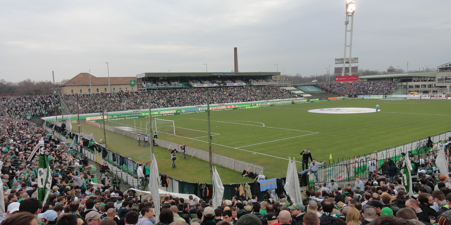 Hungarian derby: Ferencvárosi TC - Újpest FC. Before the game. (March 2013)